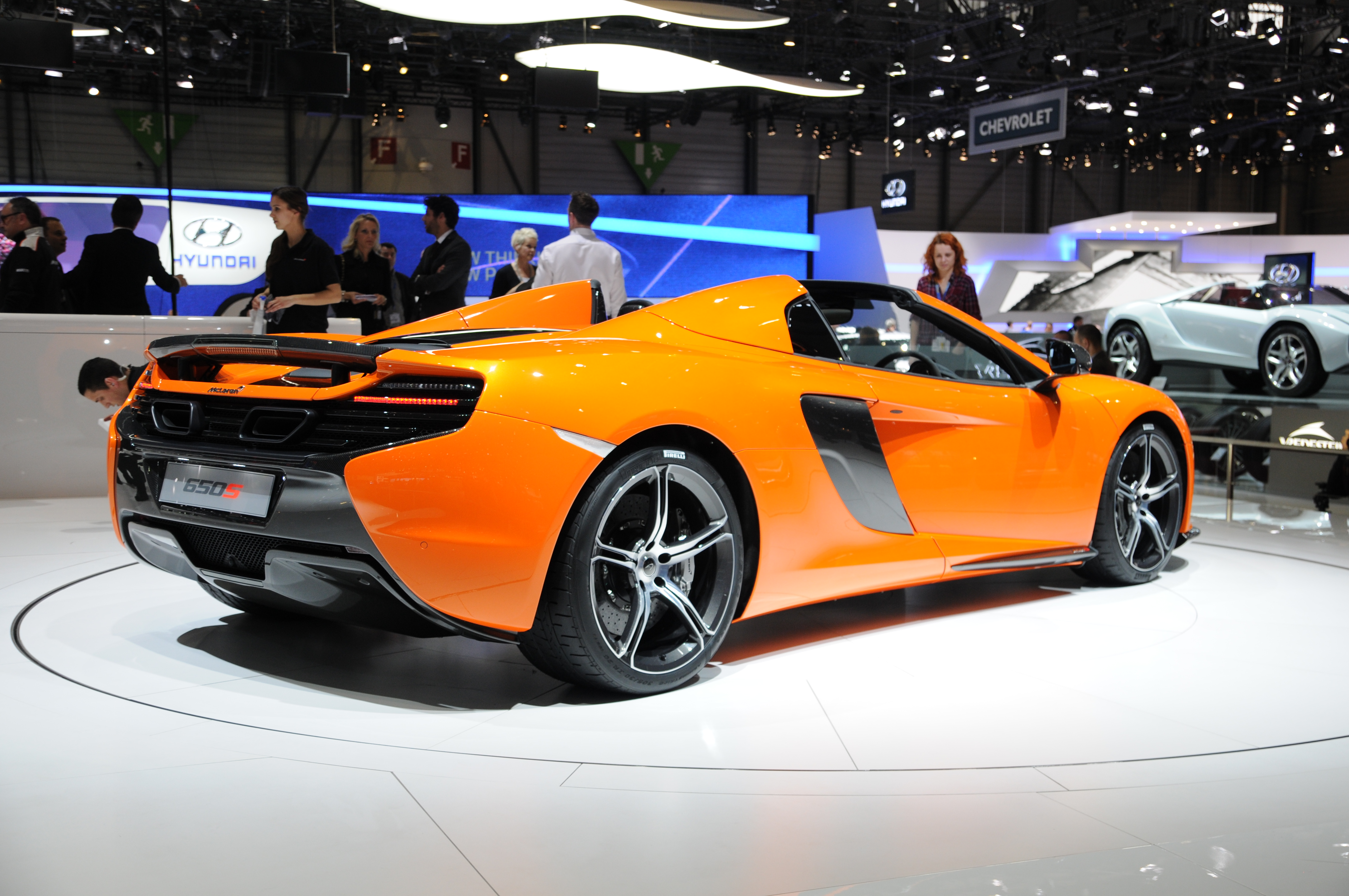 Geneva Motor Show 2014 (photo taken on the first press day)